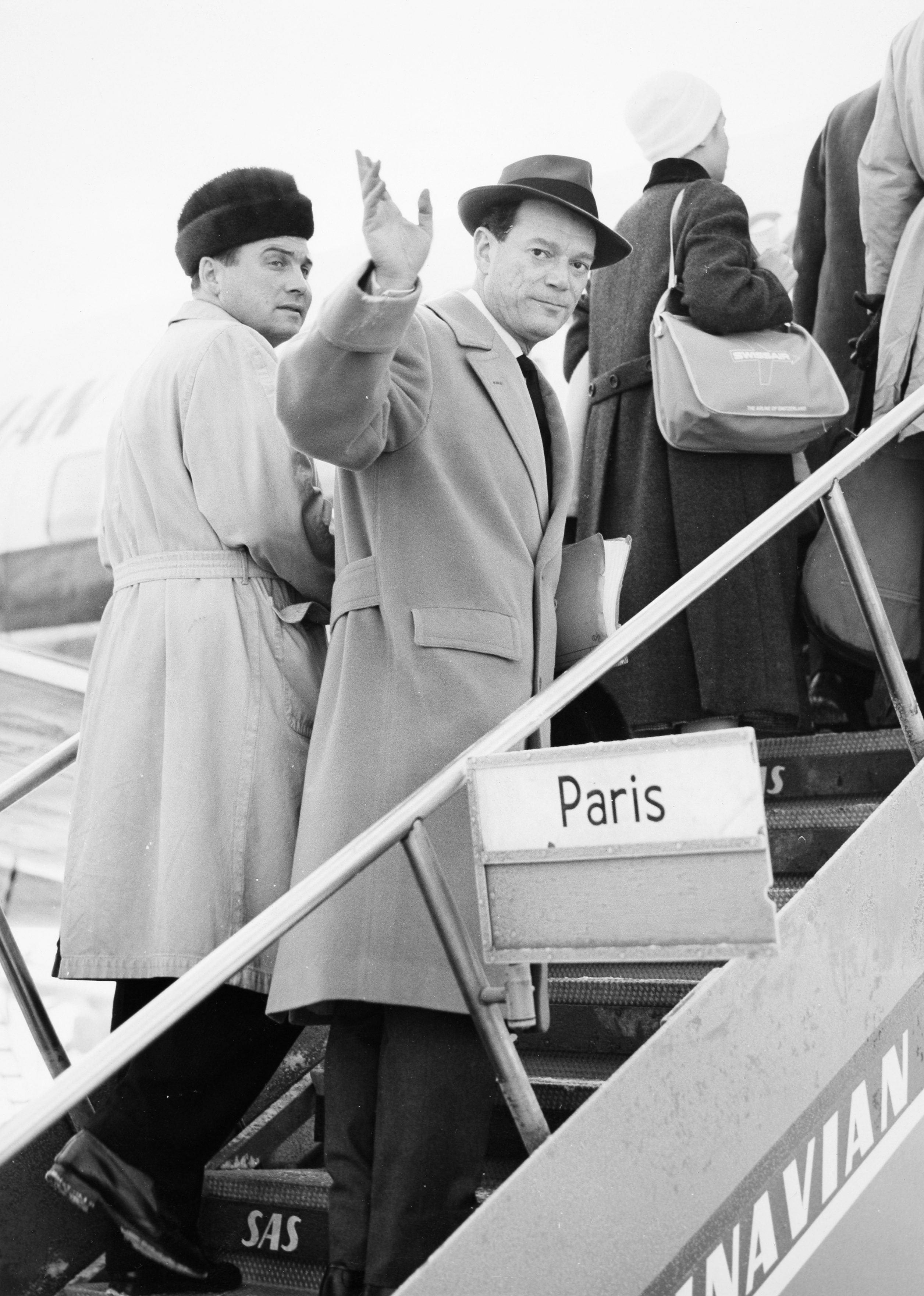 Eddie Lemmy Constantine, actor, USA. At the SAS polar Route, here on Kastrup Airport CPH, Copenhagen 1958-01-04